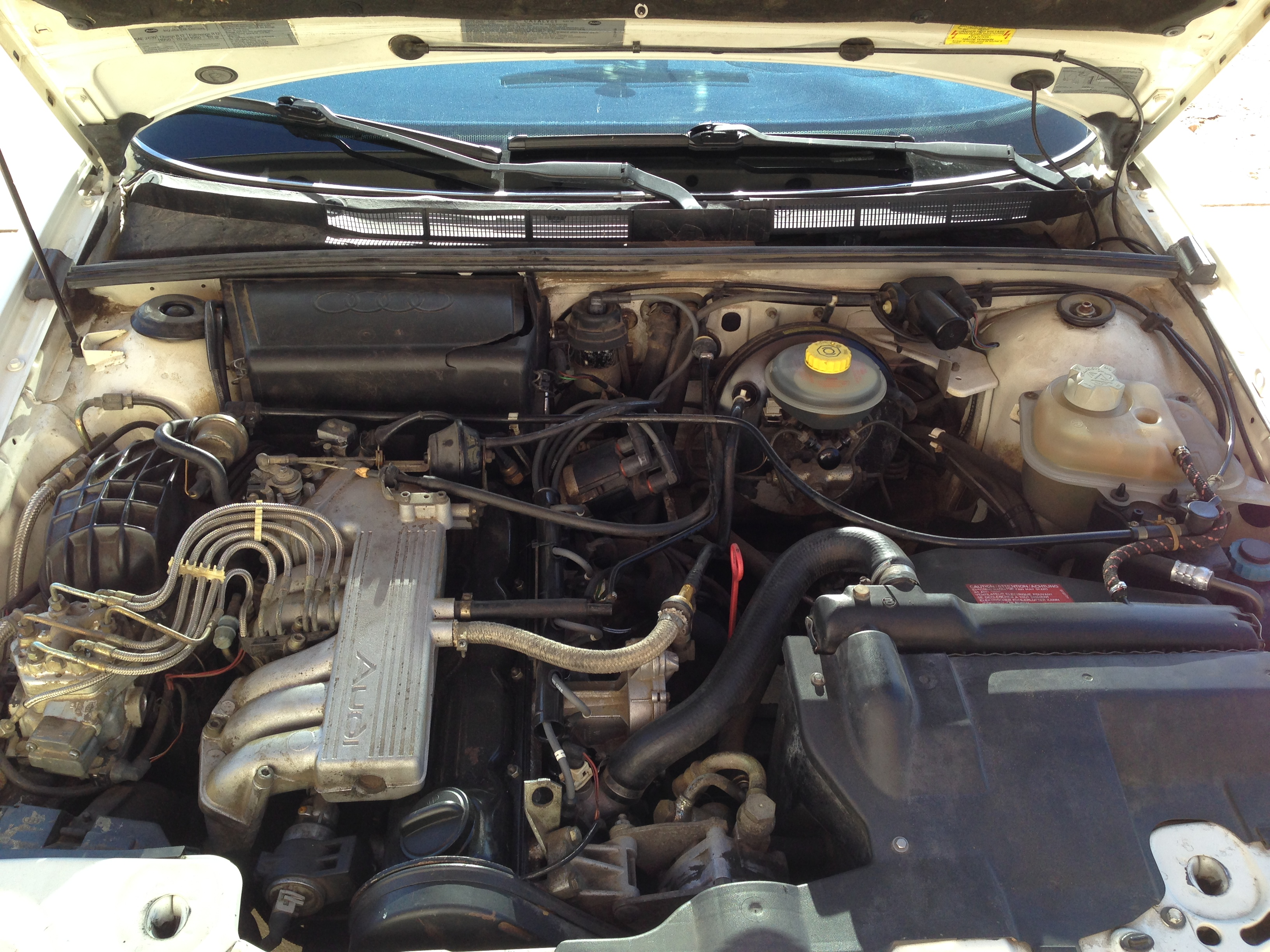 An Audi R5 2.3 L SOHC 10V I5 engine in a 1988 Audi 80 quattro. This engine was later made in a 20V DOHC variant. Because of the length of the five-cylinder engine and its forward positioning (to accommodate the longitudinal FWD transaxle; the engine is so far forward that the timing belt cover is even with the holes the hood fastens into), the radiator and cooling fan are positioned adjacent to the engine. The engine itself is slanted (compare the location of the valve cover/oil filler cap with the location of the red oil dipstick) to make room for the radiator and to lower the hood clearance.